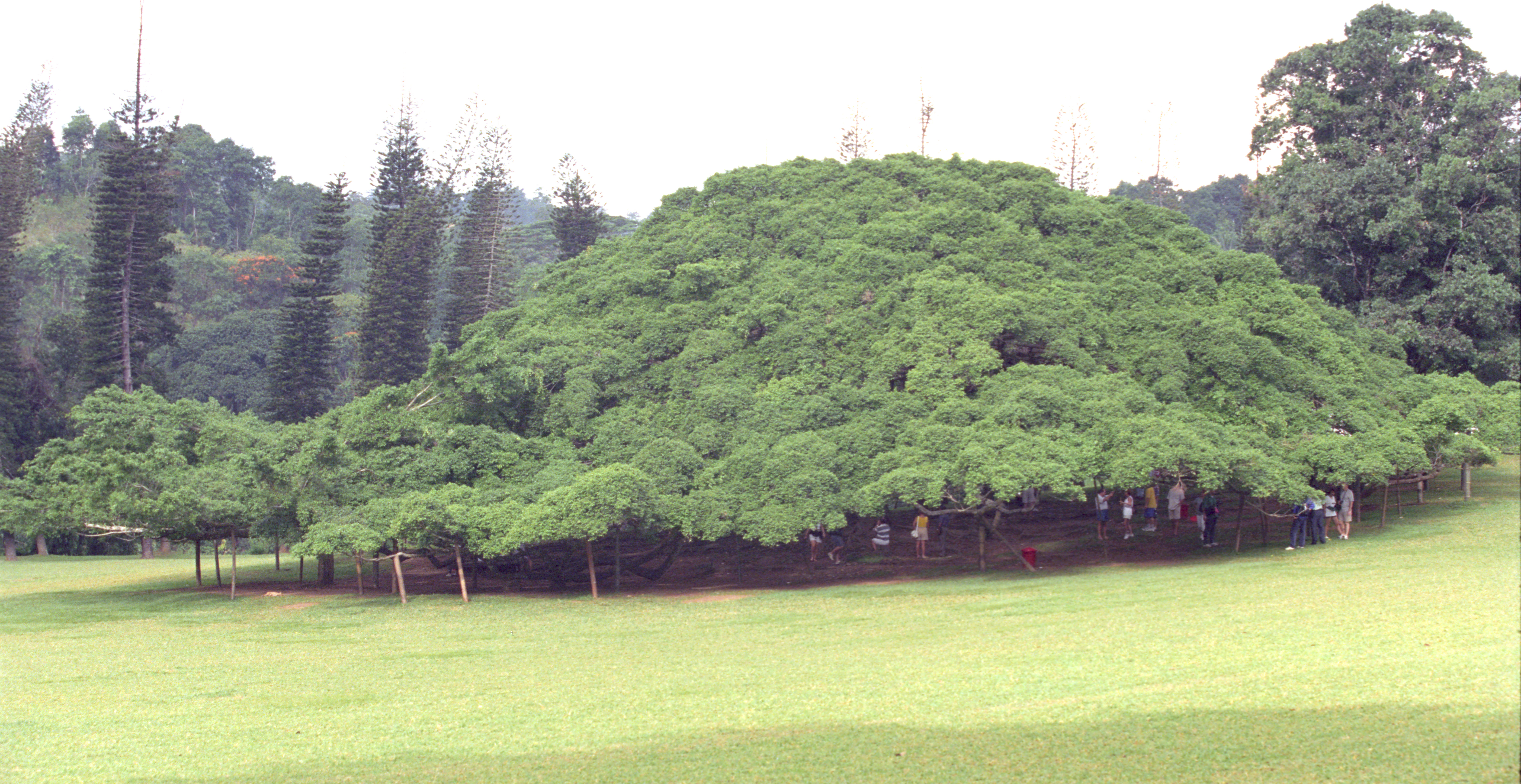 Ficus benjamina, commonly known as the Weeping Fig, Benjamin's Fig, or the Ficus Tree - Royal Botanical Garden, Peradeniya, Sri Lanka. Probably the biggest ficus tree in the world